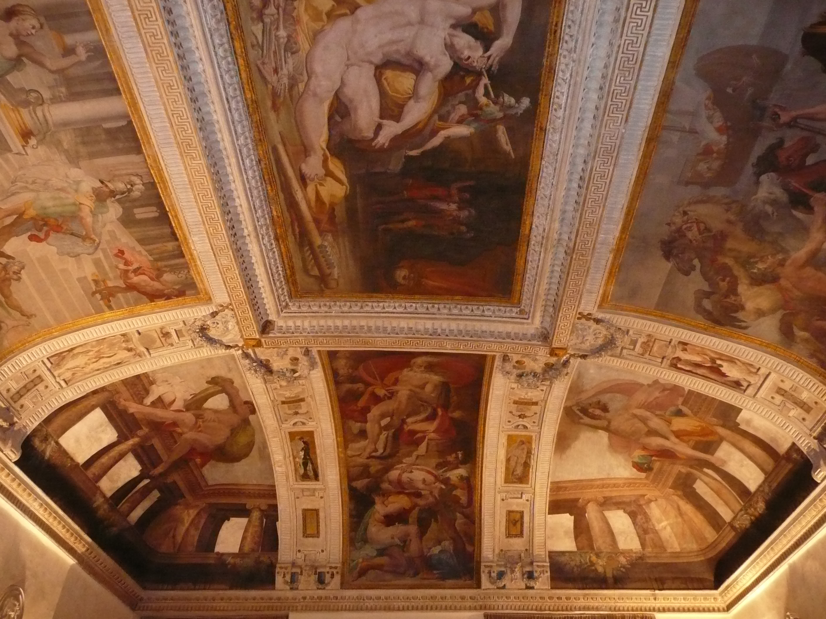 Ceiling frescos with Story of Ulysses by Pellegrino Tibaldi in Palazzo Poggi (Bologna)